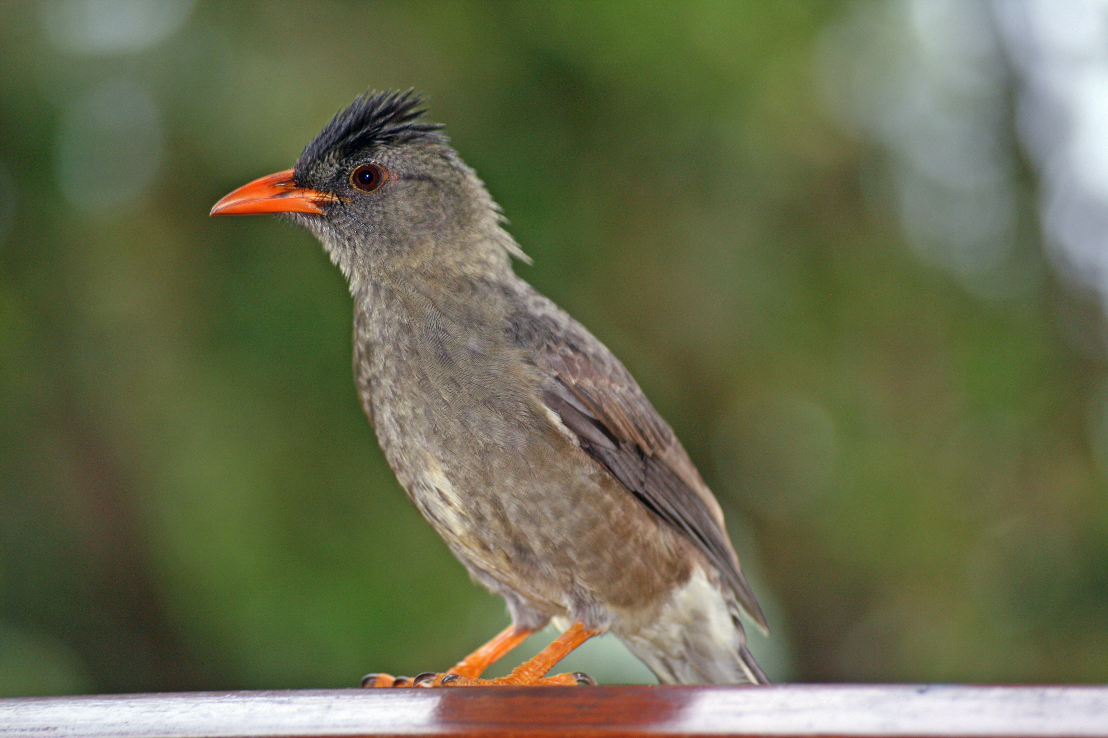 Hypsipetes crassirostriss ("Seychelles Bulbul")) on Praslin island on the Seychelles